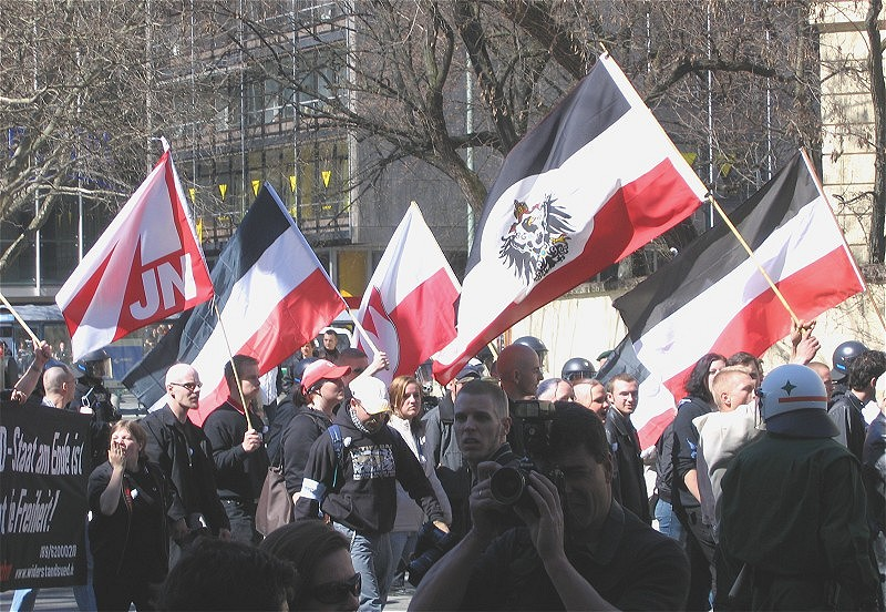 Neonazi rally in Munich on April 2, 2005